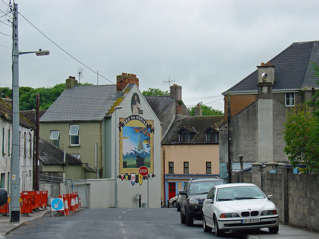 Wall art: Bruff, Co. Limerick The Flight of the Earls